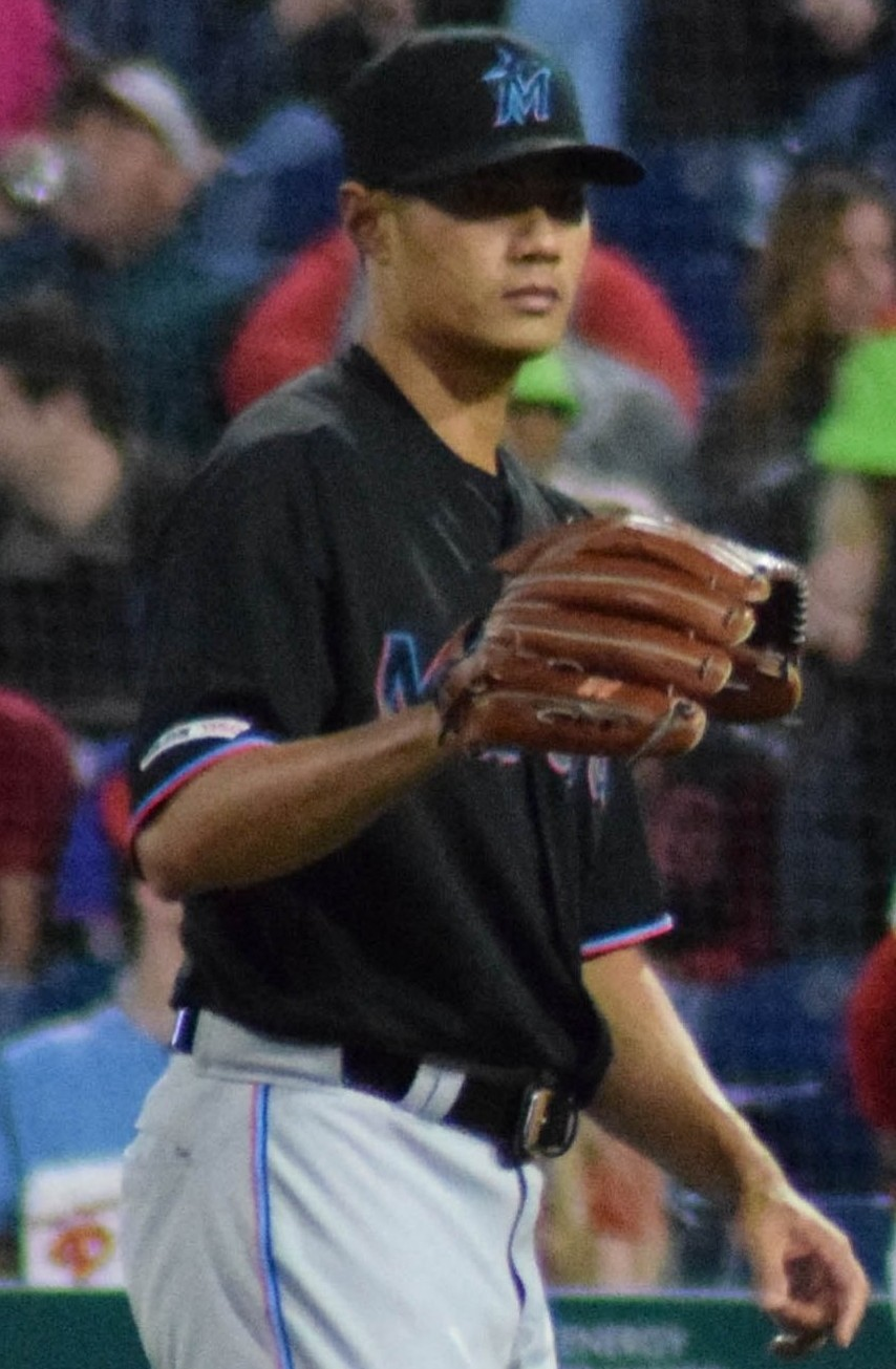 Wei Yin Chen 2019